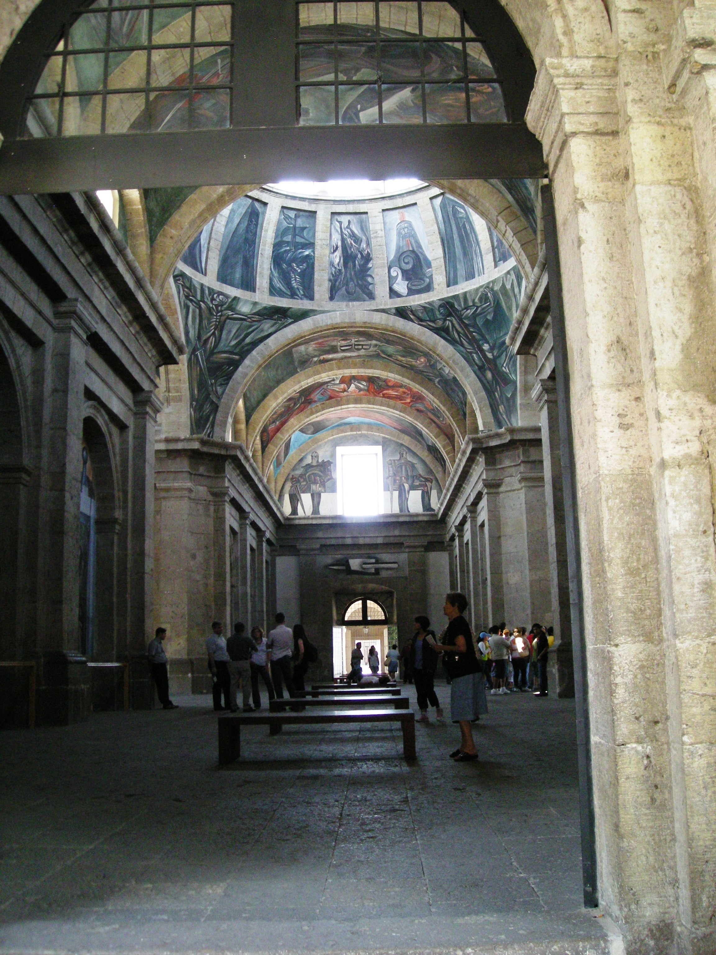 Hallway of the Cabañas Hospice Cultural Center in Guadalajara Mexico